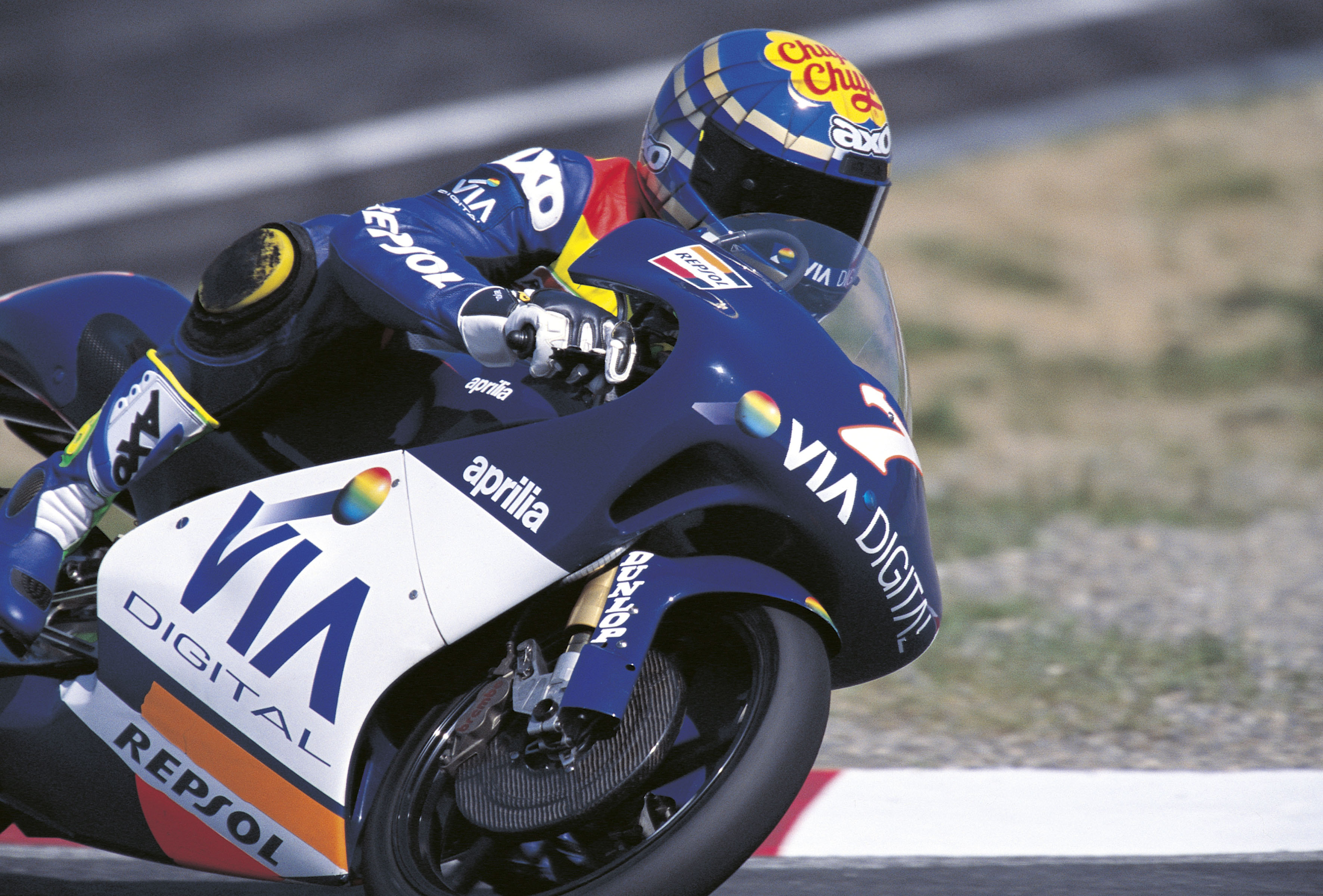 Emilio Alzamora, riding his 125cc Aprilia at the 1998 Japanese Grand Prix.